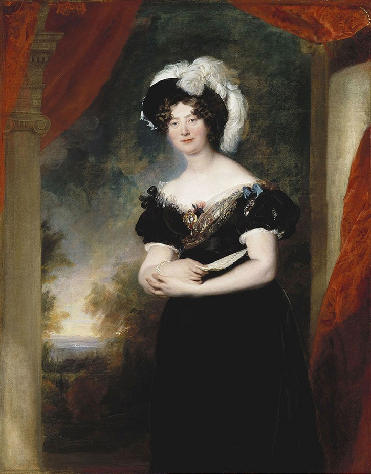 Mary of Great Britain, duchess of Gloucester and Edinburgh (1776-1857)